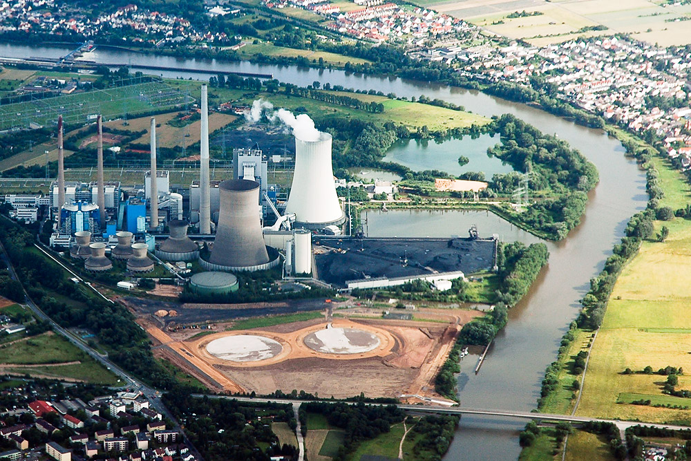 Großkrotzenburg power station and Großkrotzenburg substation (top left), Main river, Germany, Hessen